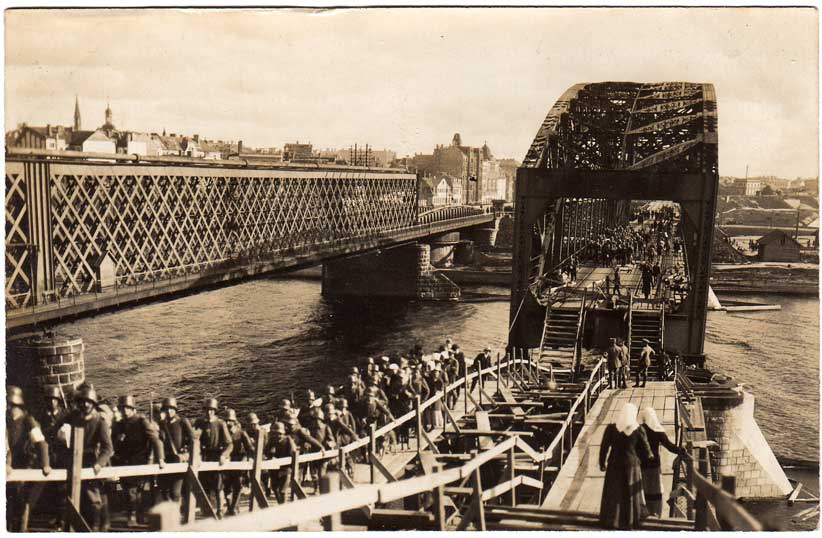 German troops crossing the Daugava river via the bombed railway bridge in Riga.